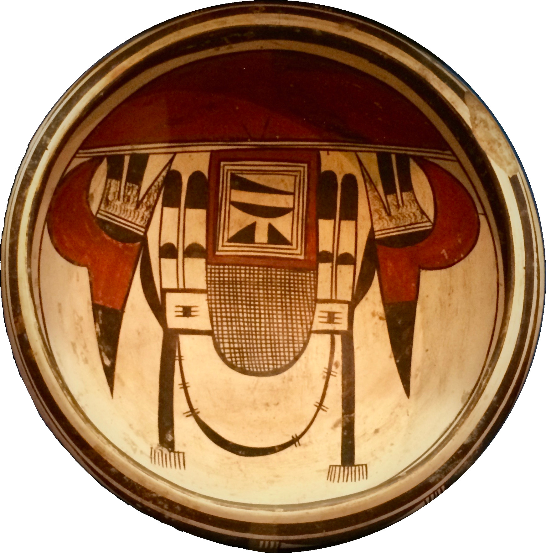 Nampeyo, painted by Fannie, circa 1920? I forgot to copy the tag but I'm pretty sure of the ID.